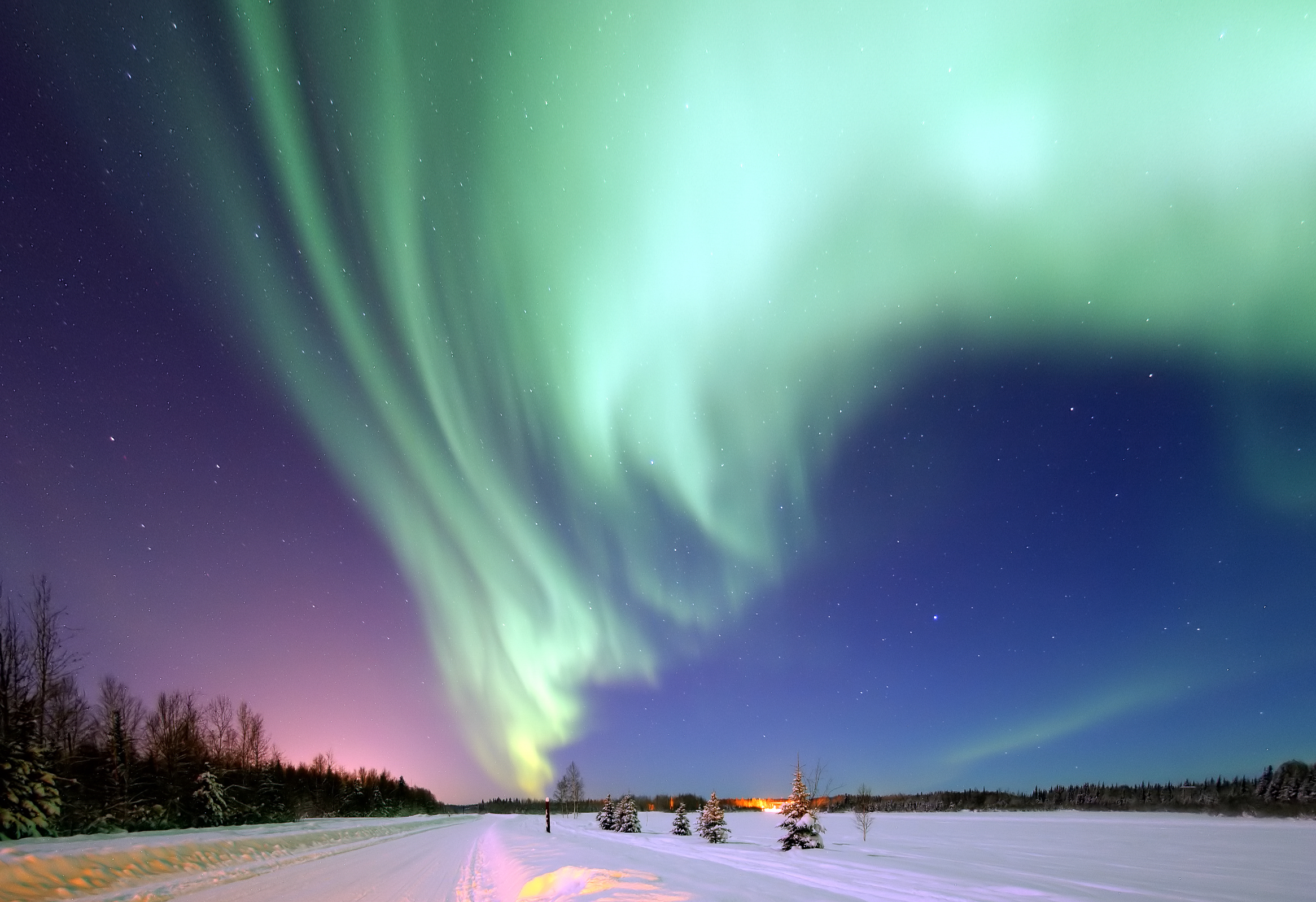 Eielson Air Force Base, Alaska — The Aurora Borealis, or Northern Lights, shines above Bear Lake